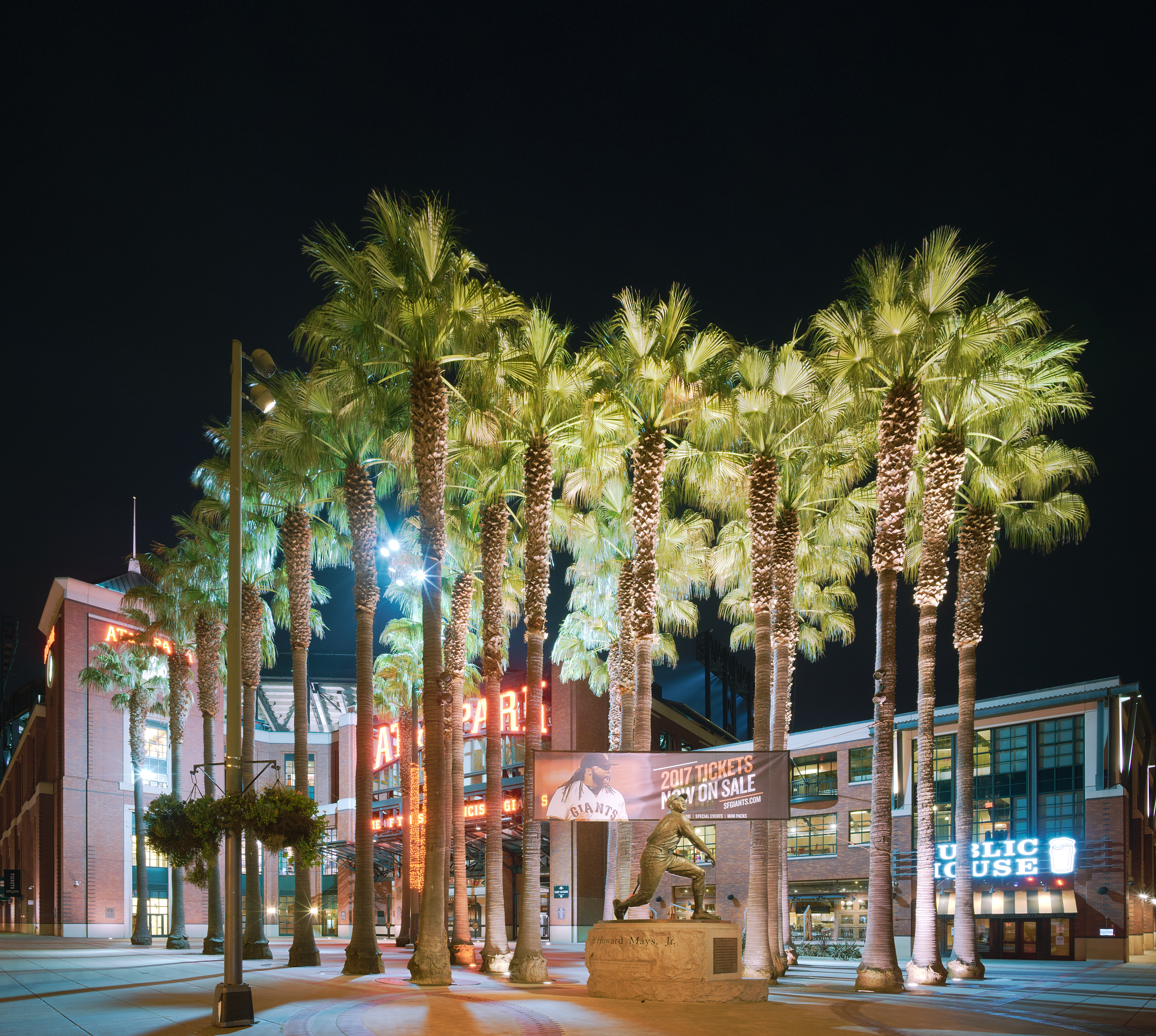 The Willie Mays Plaza at AT&T Park in San Francisco. There are 24 palm trees planted at 24 Willie Mays Plaza in commemoration of Willie Mays' number 24.